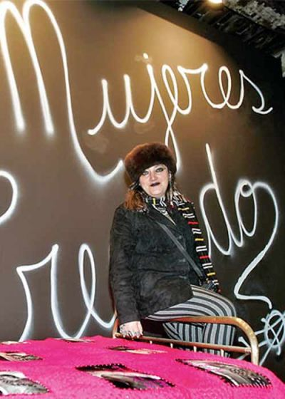 shè's a lider